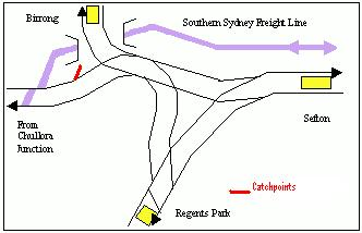 South Sydney Freight Line at Sefton Park Junctions